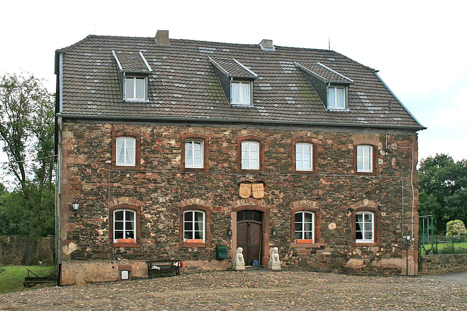 Cultural heritage monument No. 60 in Heimbach